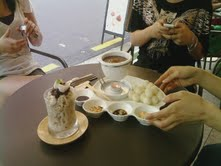 Sweet red-bean porridge fondue